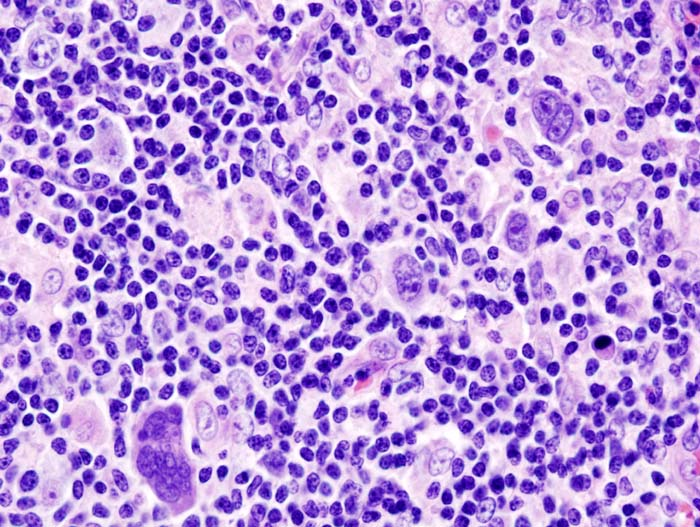 Histopathologic image of Hodgkin's lymphoma. Lymph node biopsy. H & E stain. The same as illustrated in a file "Hodgkin_lymphoma_(1)_mixed_cellulary_type.jpg".